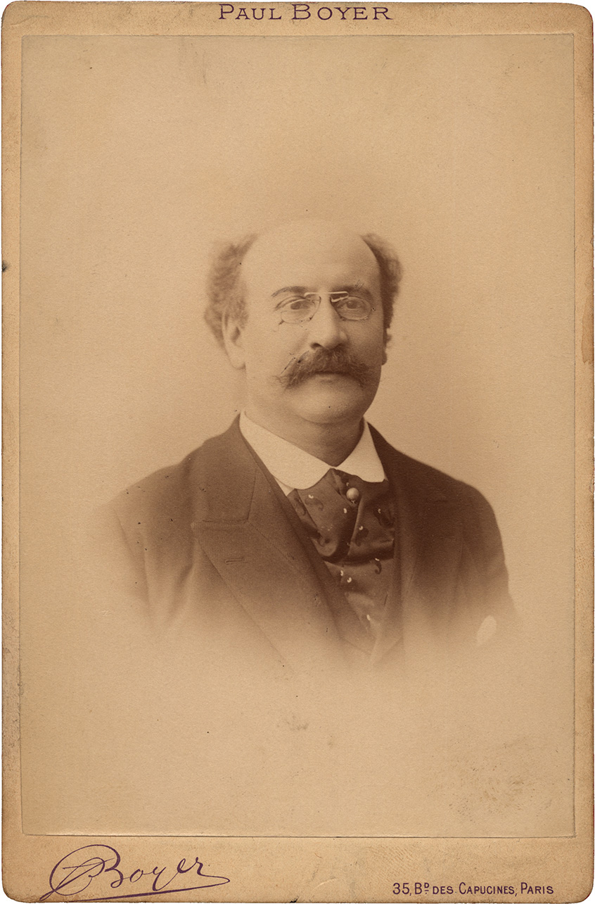 Portrait of Jean-Robert (Roberto Giovanni Giulio) Planquette, composer (1848-1903). Photo by Paul Boyer, before 1903.